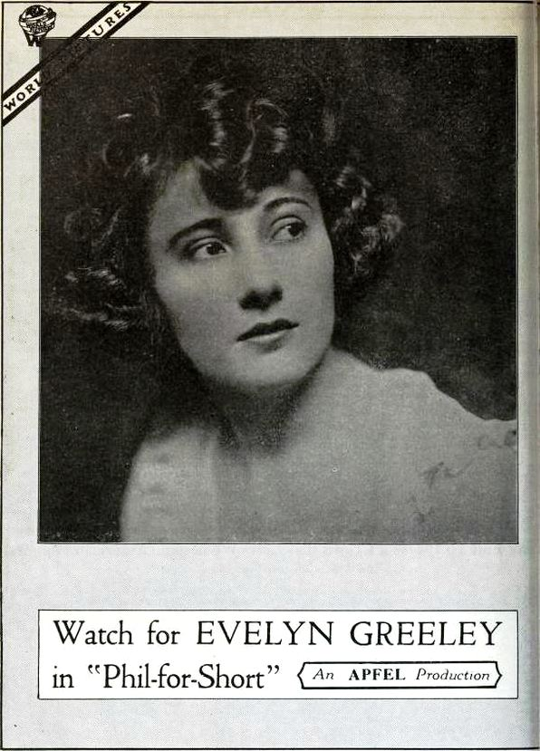 Ad for the American comedy film Phil-for-Short (1919) with Evelyn Greeley, on page 6 of the May 4, 1919 Film Daily.